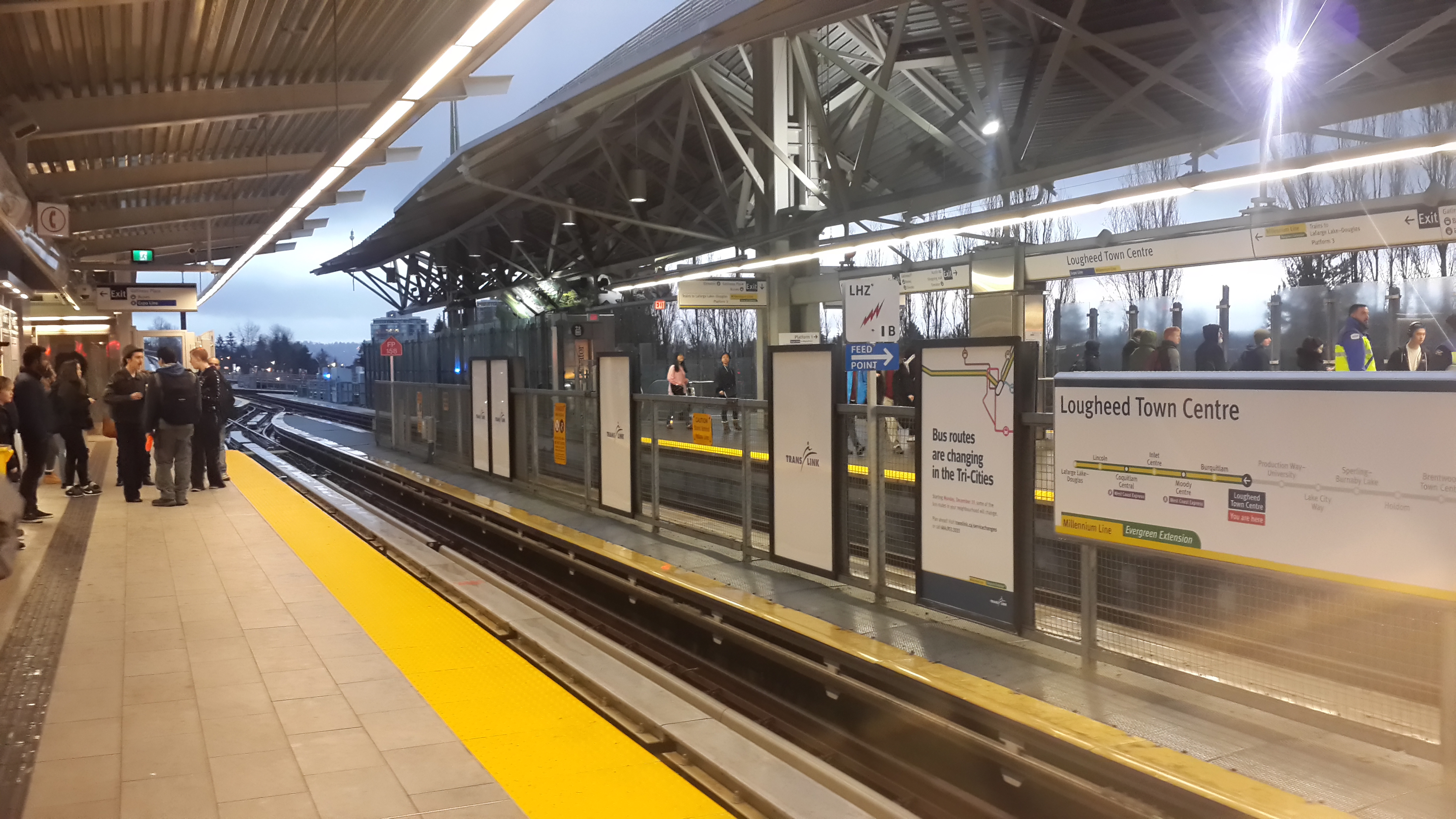 Platform 3 of Lougheed Town Centre station, taken on December 2, 2016. 中文（中国大陆）: 2016年12月2日的洛歇镇中心站3站台